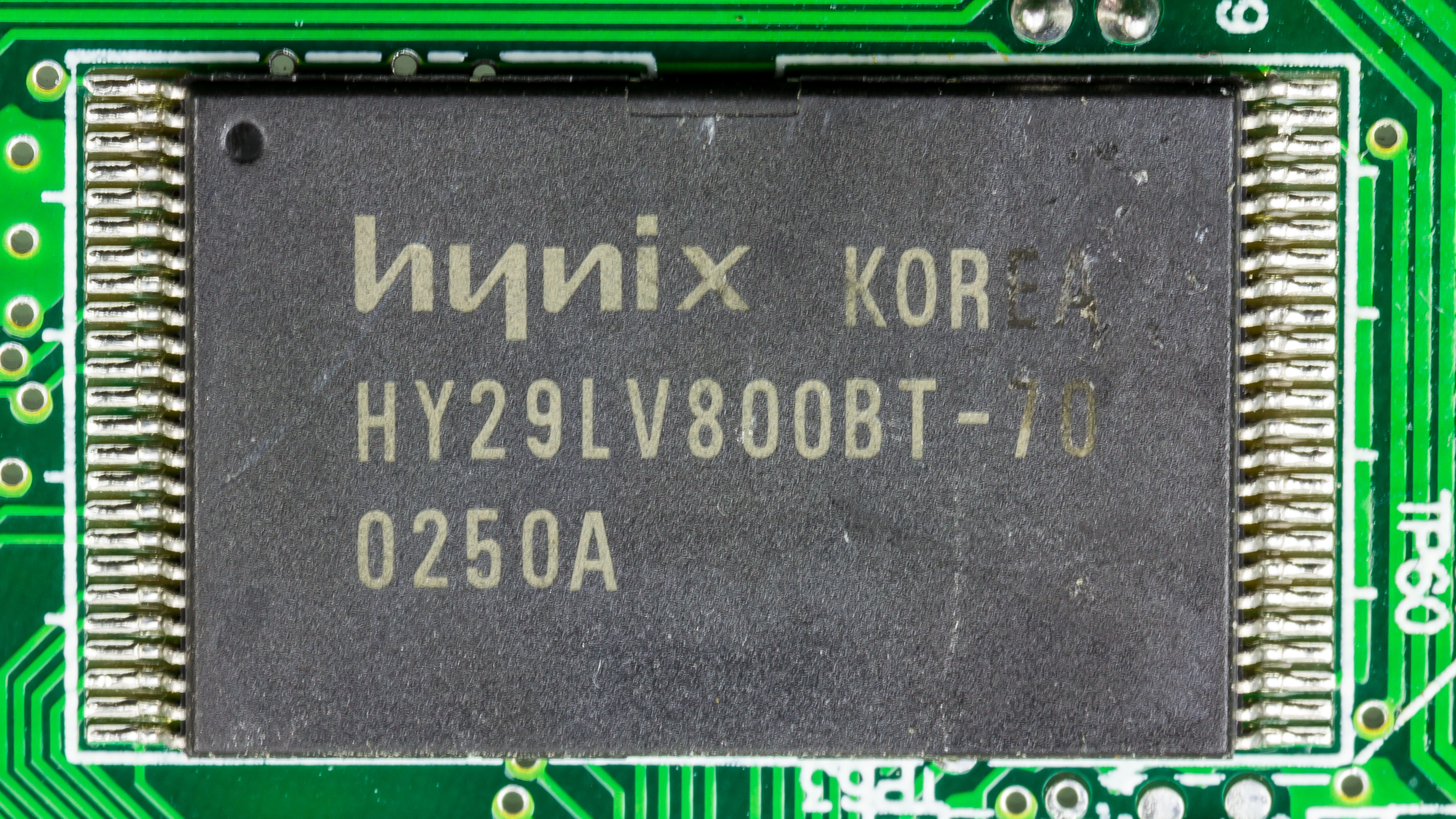 SEG DVD 430 - Hynix HY29LV800BT-70 - 8 Mbit (1M x 8/512K x 16) Low Voltage Flash Memory